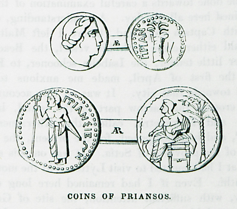 Illustration from Travels in Crete, London, John Murray, 1837, by Robert Pashley